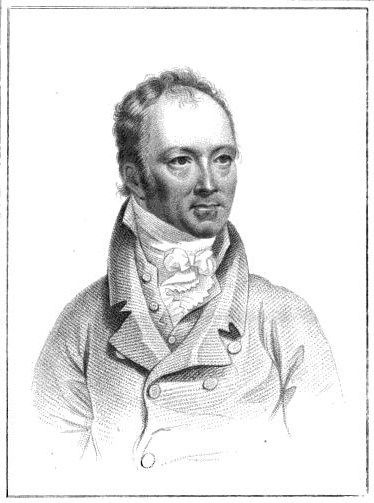 Portrait of James Caulfield (1764–1826), English author and printseller.